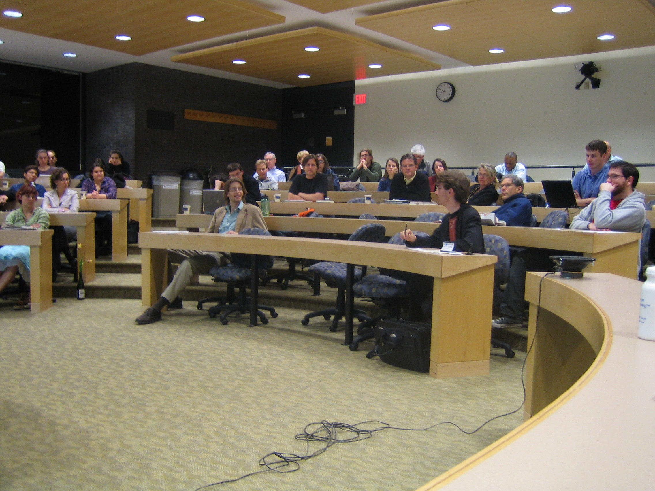 Samuel Klein, in black and red at right, describes the Bambara Wikipedia project at a talk by Wikipedia founder Jimmy Wales. Location: Pound Hall, Harvard Law School Cambridge, Massachusetts, USA Date: April 26, 2005 Photographer: Pingswept